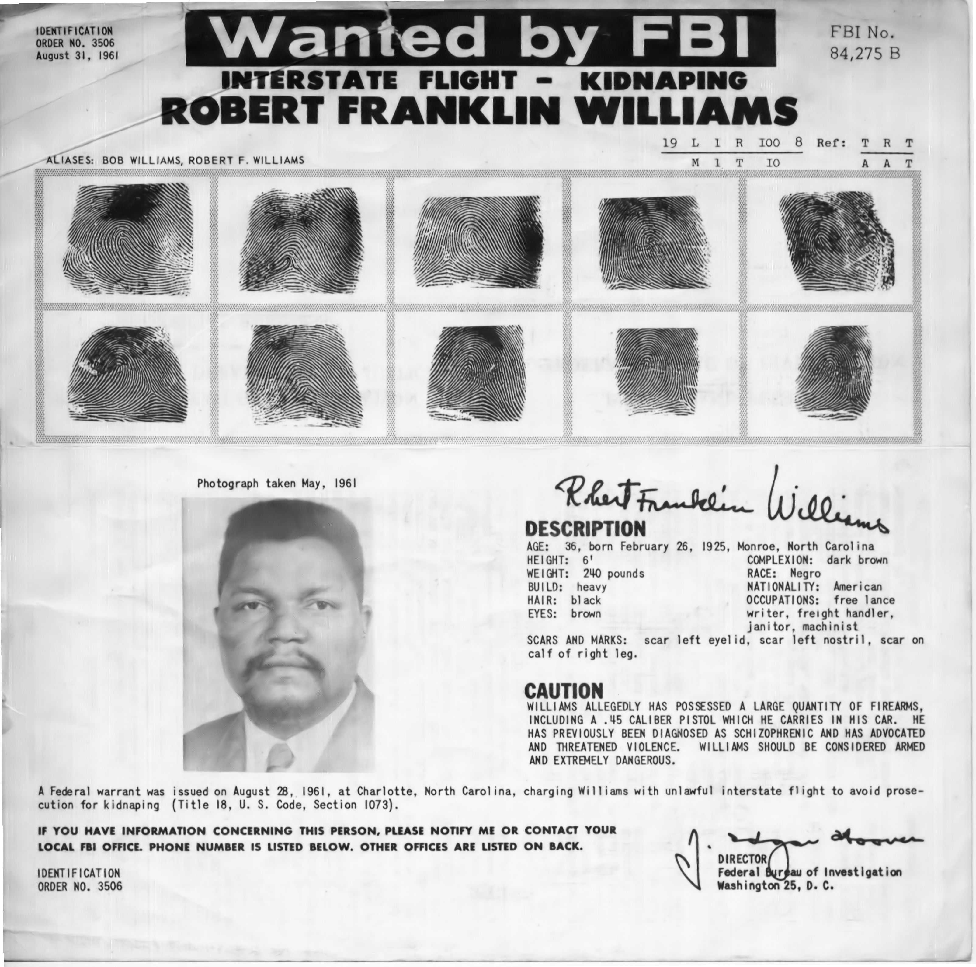 FBI "Wanted" flyer for civil rights activist Robert F. Williams. The hard-copy of this 1961 FBI Wanted flyer is owned by SarahMdaugherty, and was initially uploaded with assistance under the wiki id P123, but without the hard-copy origination/source info. It was reloaded under the owner's id at her request. (owns 16 varied vintage FBI Wanted fLyers and will post them as the info on each name arises.)